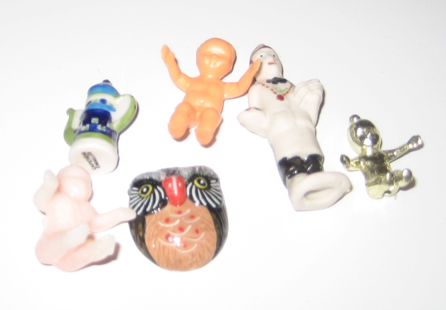 King cake tokens from the 2008 New Orleans Mardi Gras season